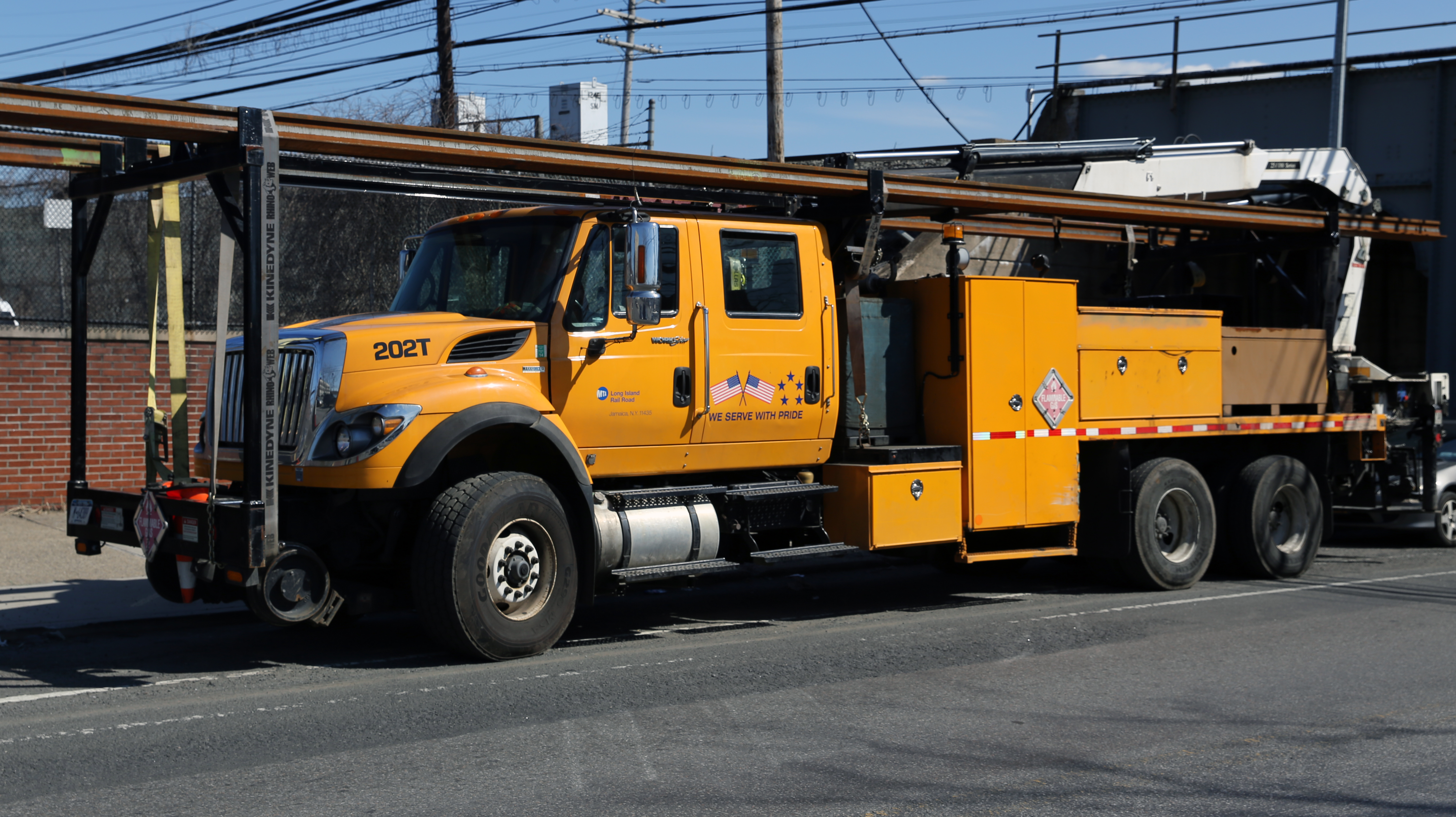 An International WorkStar belonging to the MTA's Long Island Rail Road.